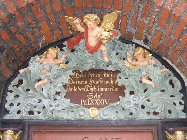 St Nicholas Church, Stralsund, Germany. The tympanum above a door facing Semlower Street: “Blessed are they who dwell in Thy house; they will be alway praising Thee. Selah.” (Psalm 84)